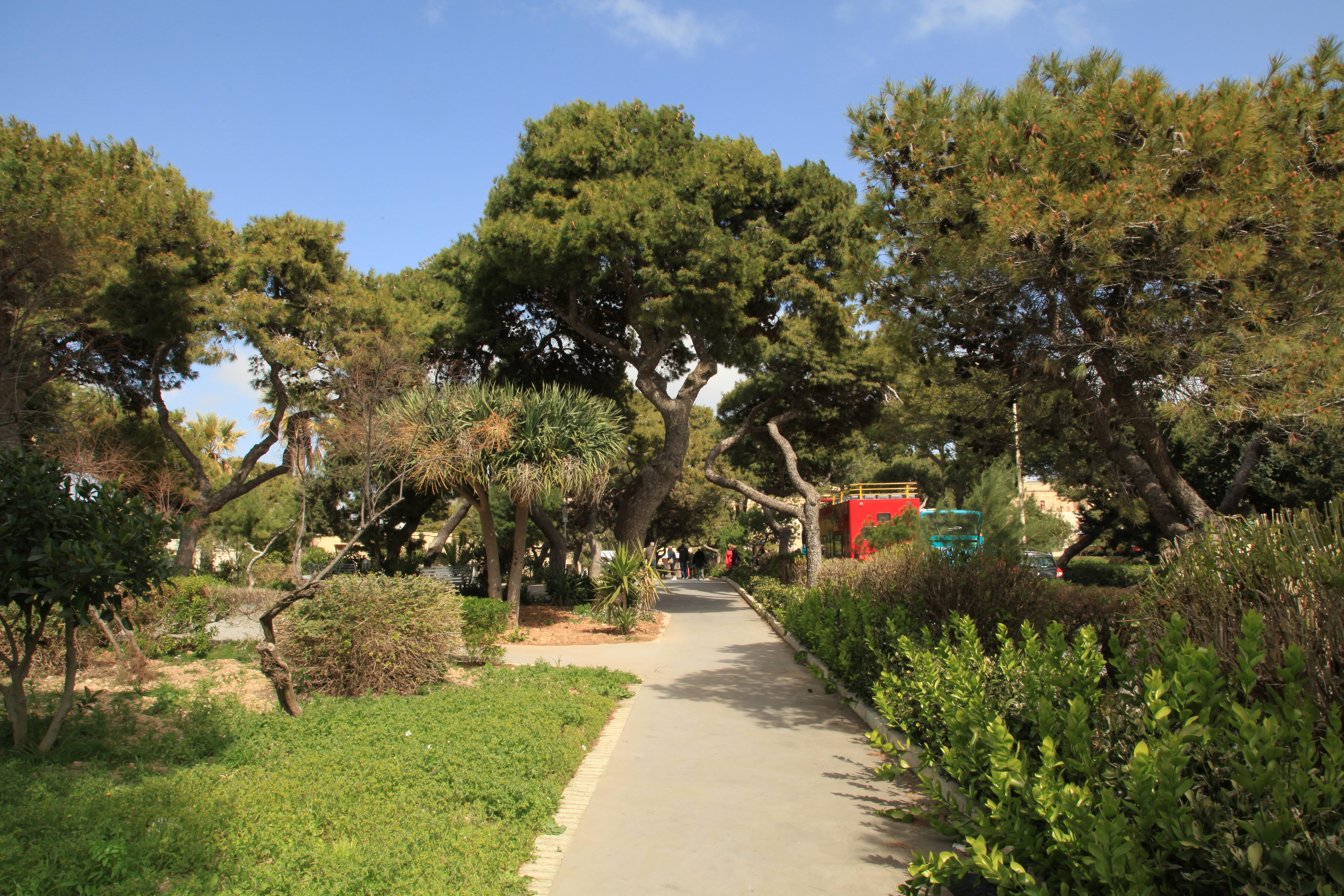 Gnien Howard in Mdina, Malta